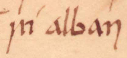 An excerpt from folio 27v of Oxford Bodleian Library MS Rawlinson B 489 (the Annals of Ulster). The excerpt concerns Domnall mac Custantín, King of Alba (died 900).